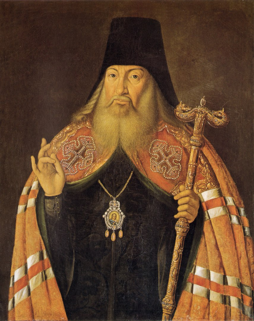 Archiepiskon Veniamin (Putsek-Grigorovich)